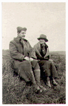 Jane Grant and Alexander Woollcott on an outing in France after the war